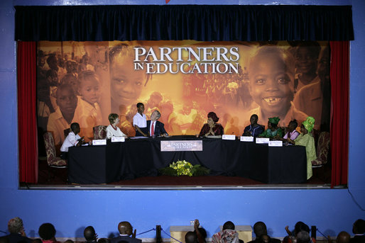 President George W. Bush at the University of Liberia